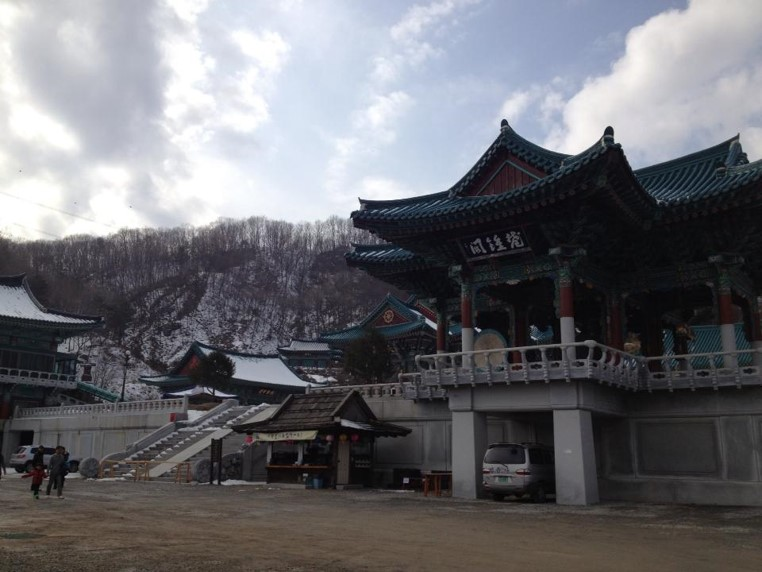 The Beomnyun temple in South Korea